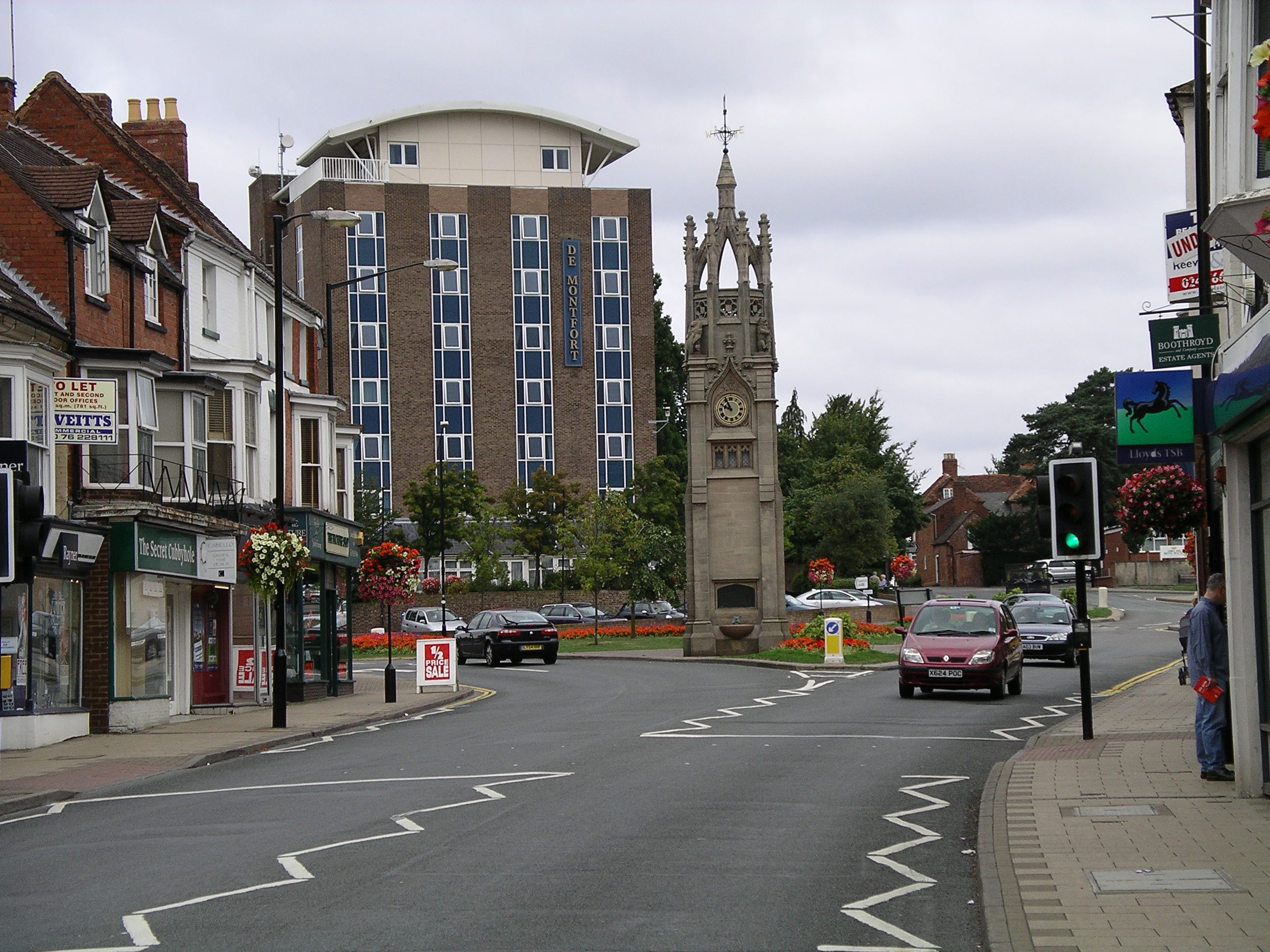 The clock tower, Kenilworth, Warwickshire, England, seen from south-southeast from The Square